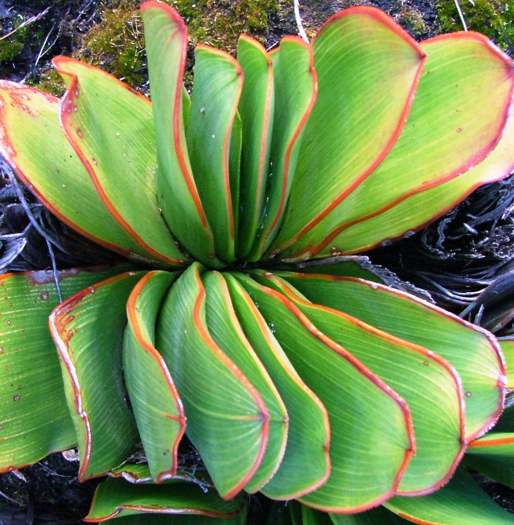 Close up detail of fan-shaped leaves of Aloe haemanthifolia. South Africa.